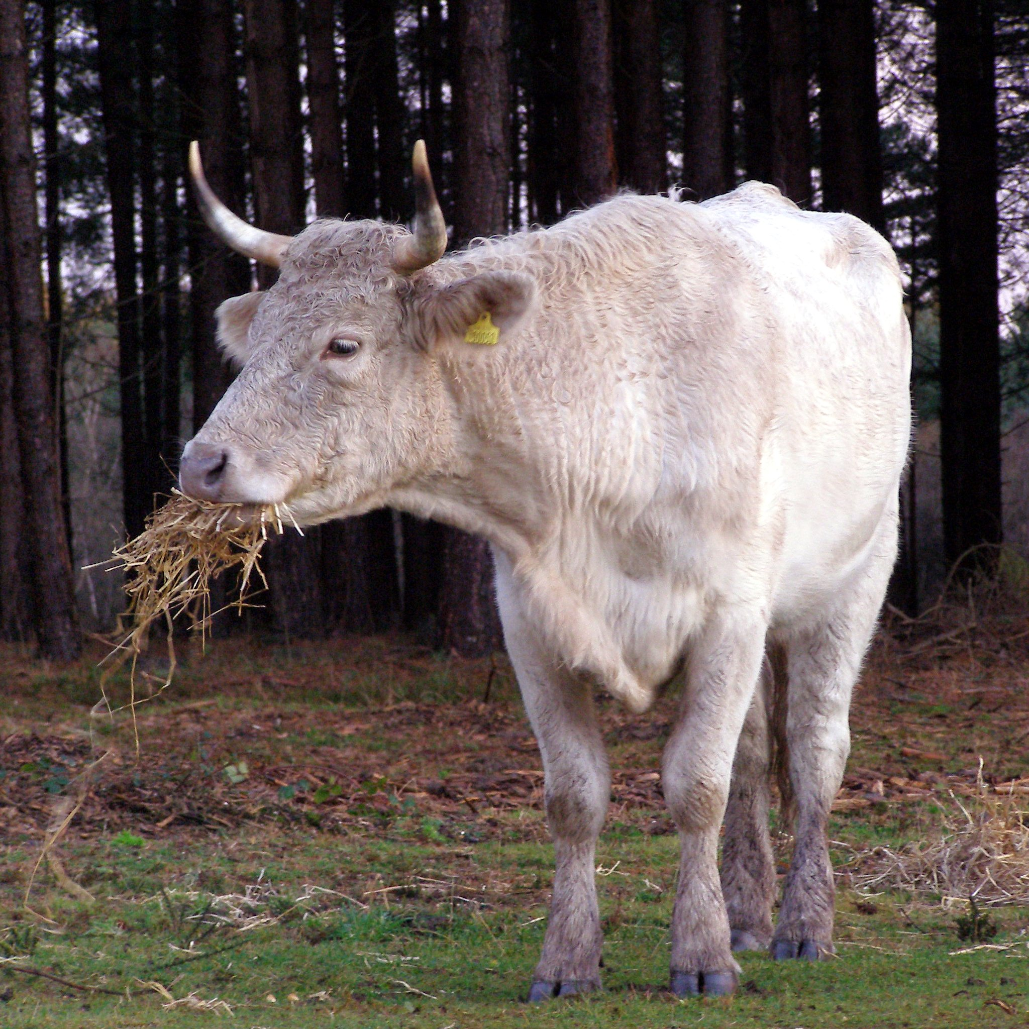 Cow feeding on straw, Longdown Inclosure, New Forest, U.K.